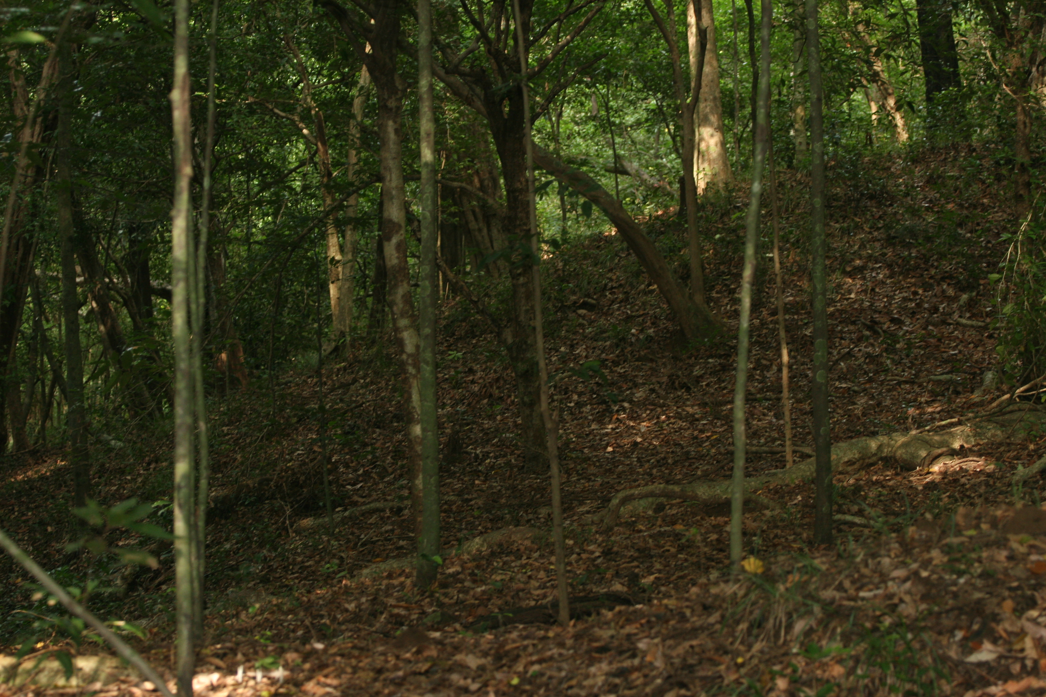 Kaludiya pokuna forest cover